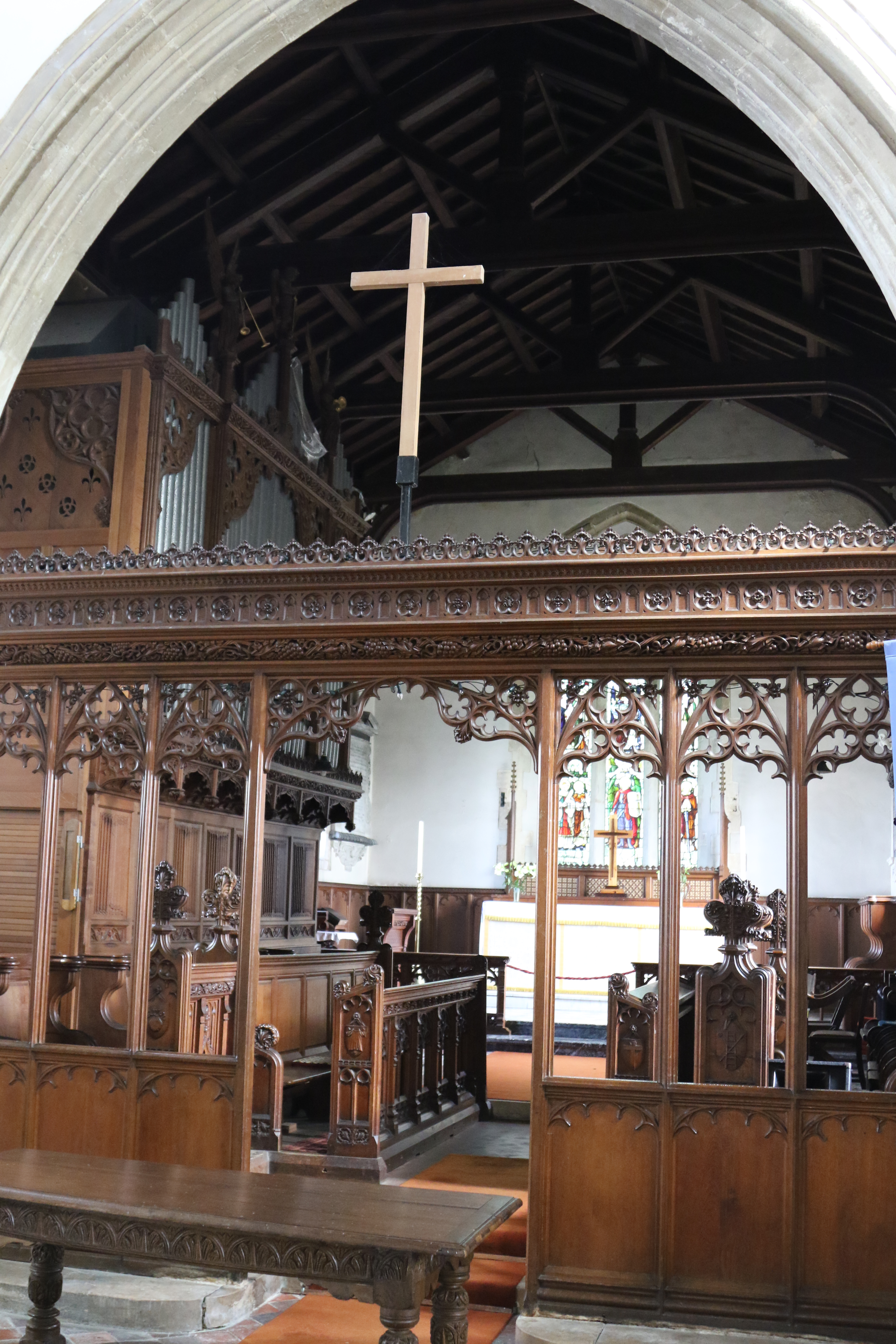 Chancel and organ in Waddesdon church